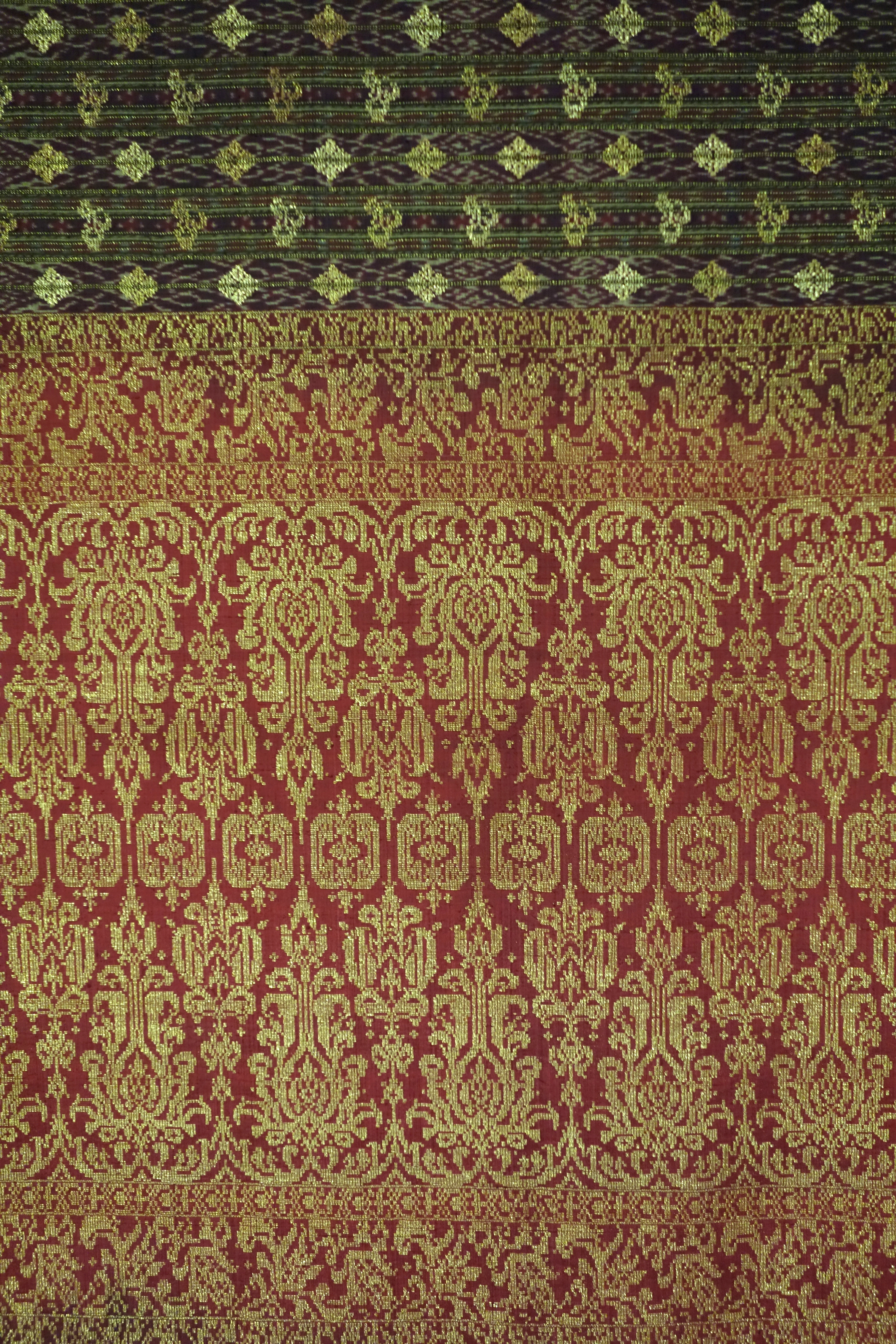 Exhibit in the Textile Museum of Canada, 55 Centre Avenue, Toronto, Ontario, Canada.